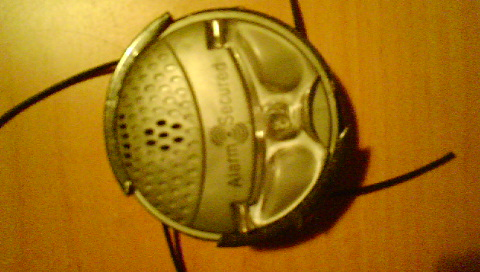 Multi Gripper Security